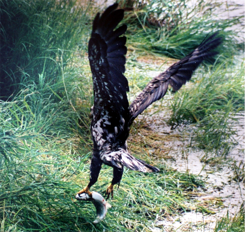 Juvenile bald eagle, Haliaeetus leucocephalus with salmon at Katmai National Park . The image is a digital picture of my old print.